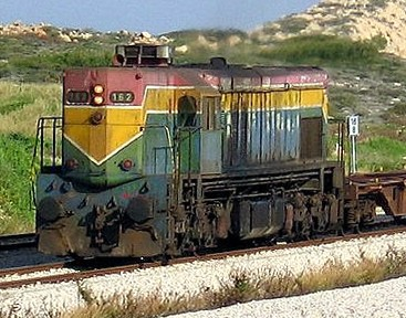 Israel Railways' locomotive no. 162 (EMD-G16) making its way south from Haifa. This is an ex-Egyptian Railways loco captured during the Six Days War in the Sinai Desert.